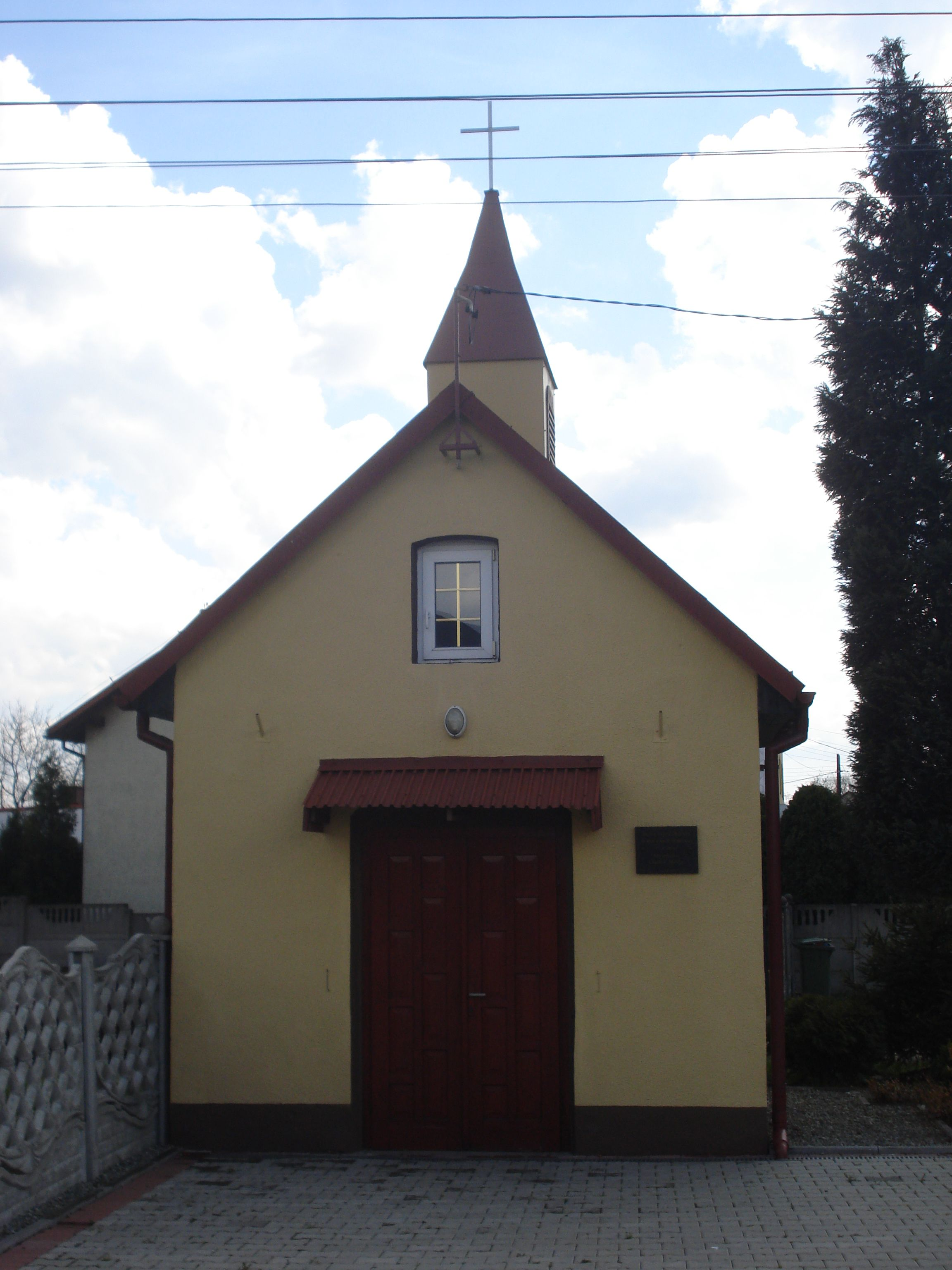 The historic chapel in Chełm Mały on Górnośląska Street